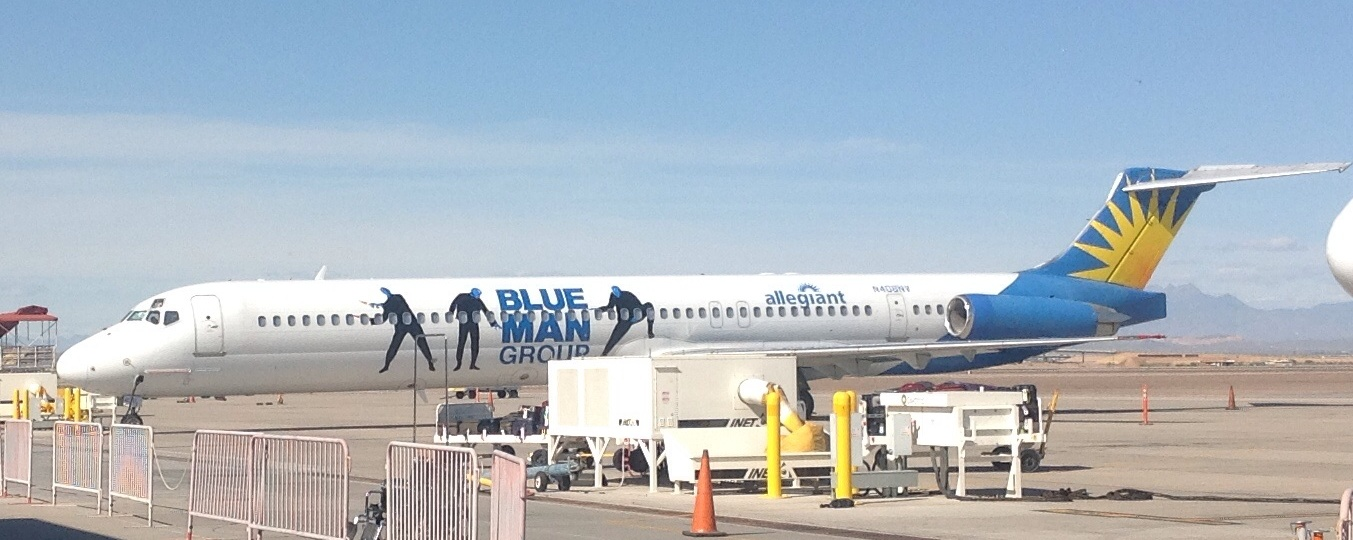 An Allegiant Air McDonnell Douglas MD-83 sitting on the tarmac at Phoenix-Mesa Gateway Airport.